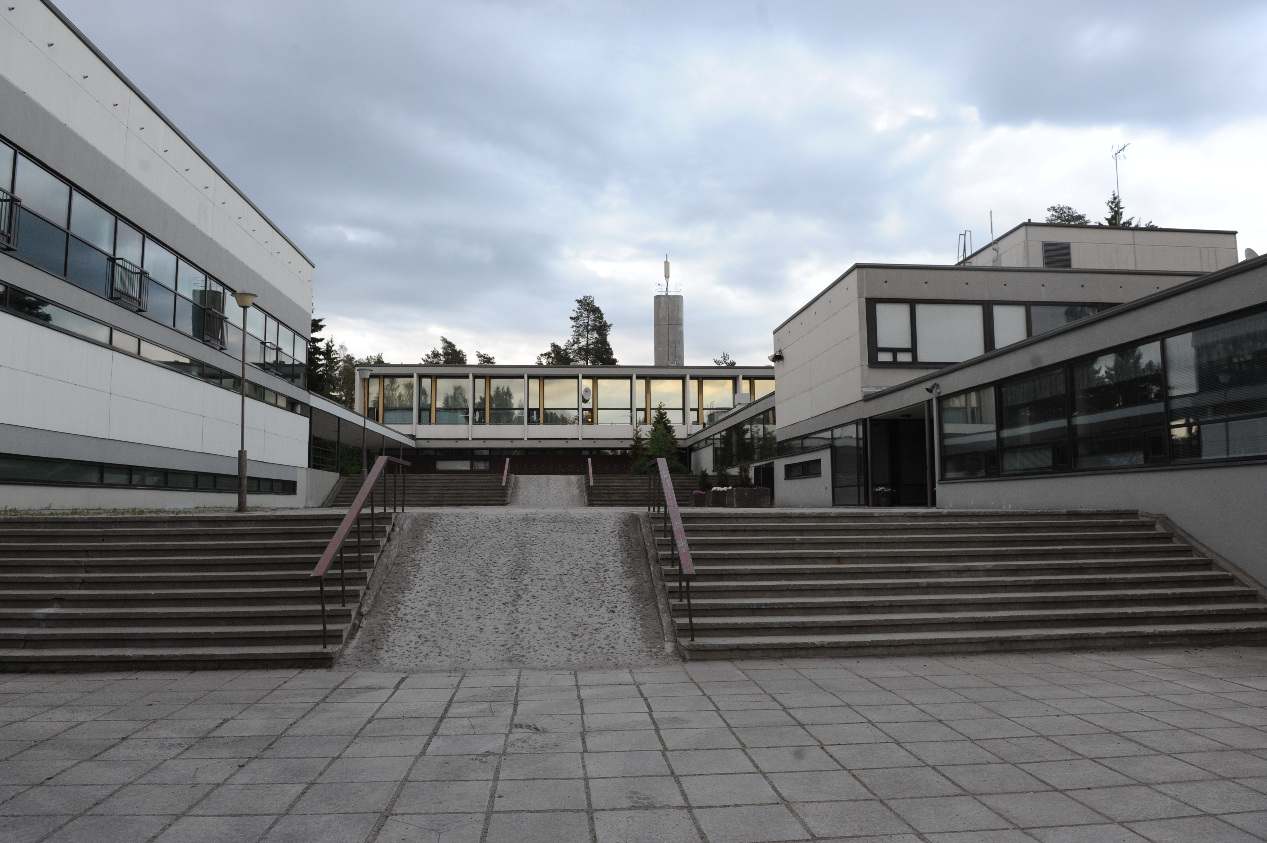 Suomalais-venäläinen koulu, Helsinki, Finland